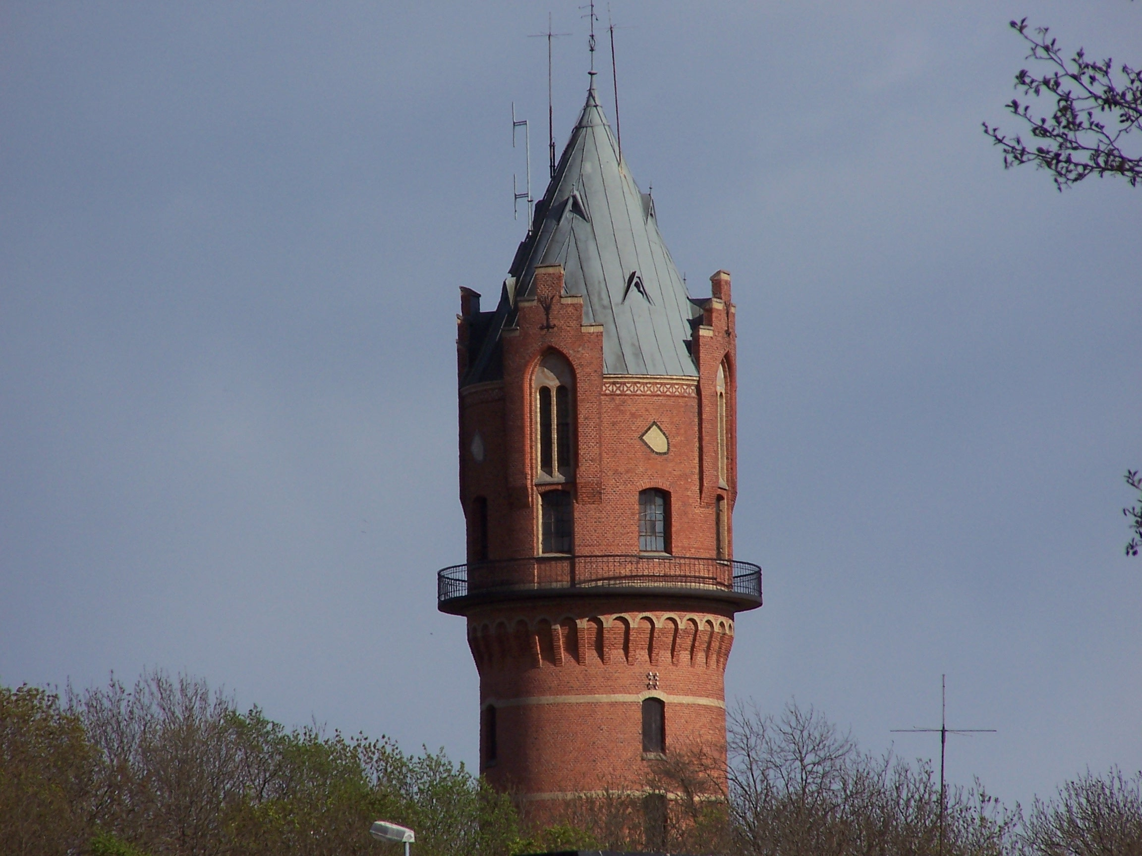 Old water tower, Ronneby